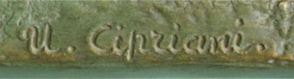 Ugo Cipriani's signature